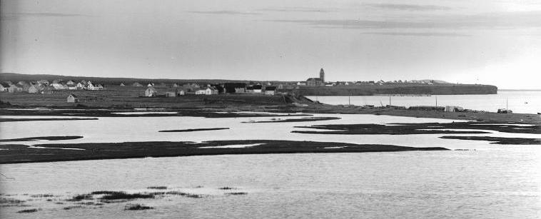 Photograph, St. Godefrey, Gaspé Peninsula, QC, about 1900, Wm. Notman & Son, Silver salts on glass - Gelatin dry plate process - 20 x 25 cm